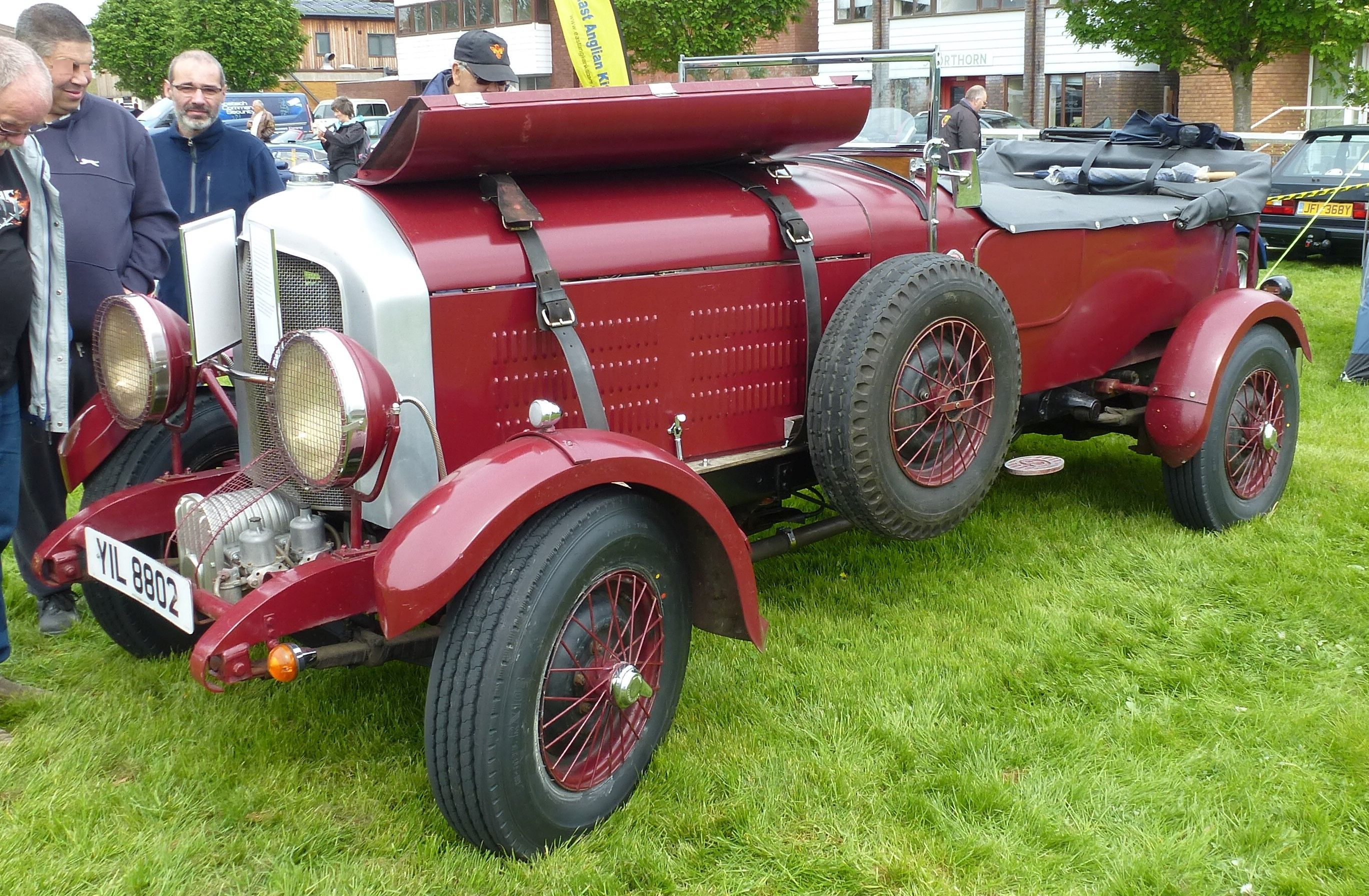 Sherpley Speed